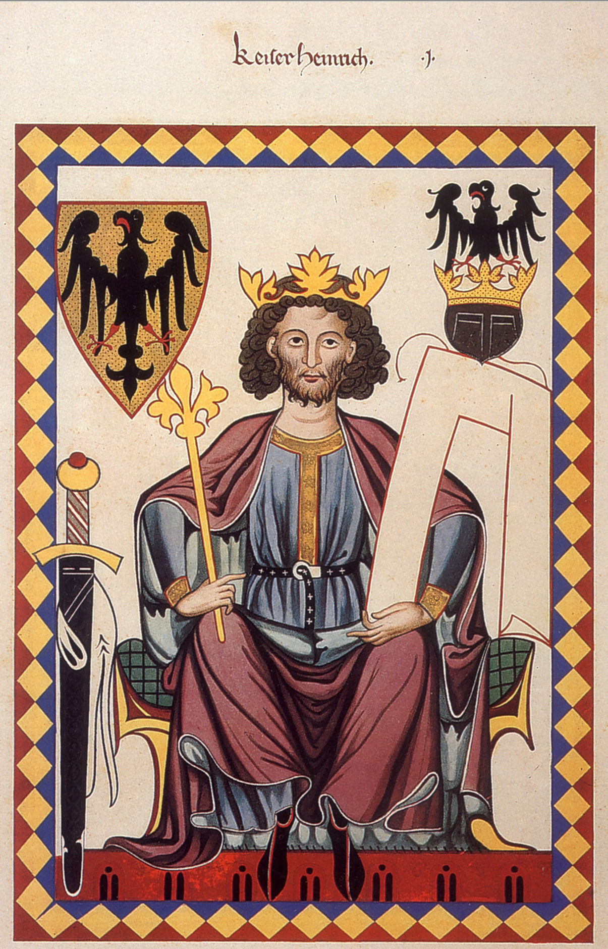 modern re-drawing from Codex Manesse, fol. 6r